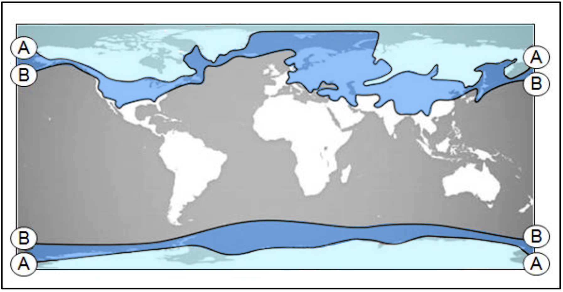 For military purposes, cold regions are defined as any region where cold temperatures, unique terrain, and snowfall have a significant effect on military operations for one month or more each year. About one quarter of the earth’s land mass may be termed as severely cold. In Figure 1-2, this area is indicated by the area above line A in the Northern Hemisphere and below line A in the Southern Hemisphere. In these areas, mean annual air temperatures stay below freezing, maximum snow depths exceed 60 centimeters, and ice covers lakes and rivers for more than 180 days each year. Another quarter of the earth is termed moderately cold. In Figure 1-3, this area fits between lines A and B (including most of the United States and Eurasia). Its mean temperatures during the coldest month are below freezing. Severely cold Moderately cold